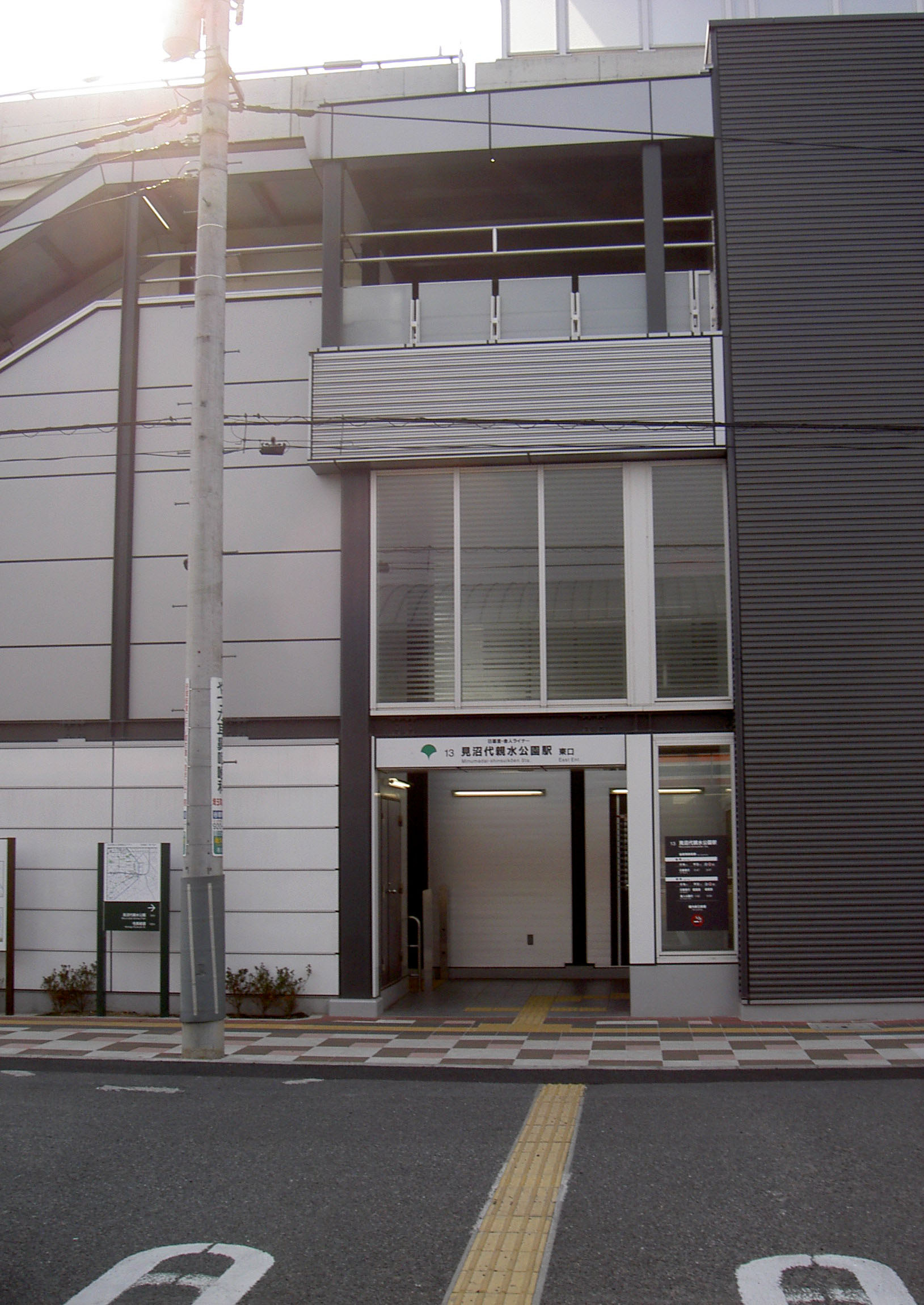 The east entrance of Minumadai Shinsuikoen station, Nippori-Toneri Liner. ja: 東京都交通局日暮里・舎人ライナー 見沼代親水公園駅東口